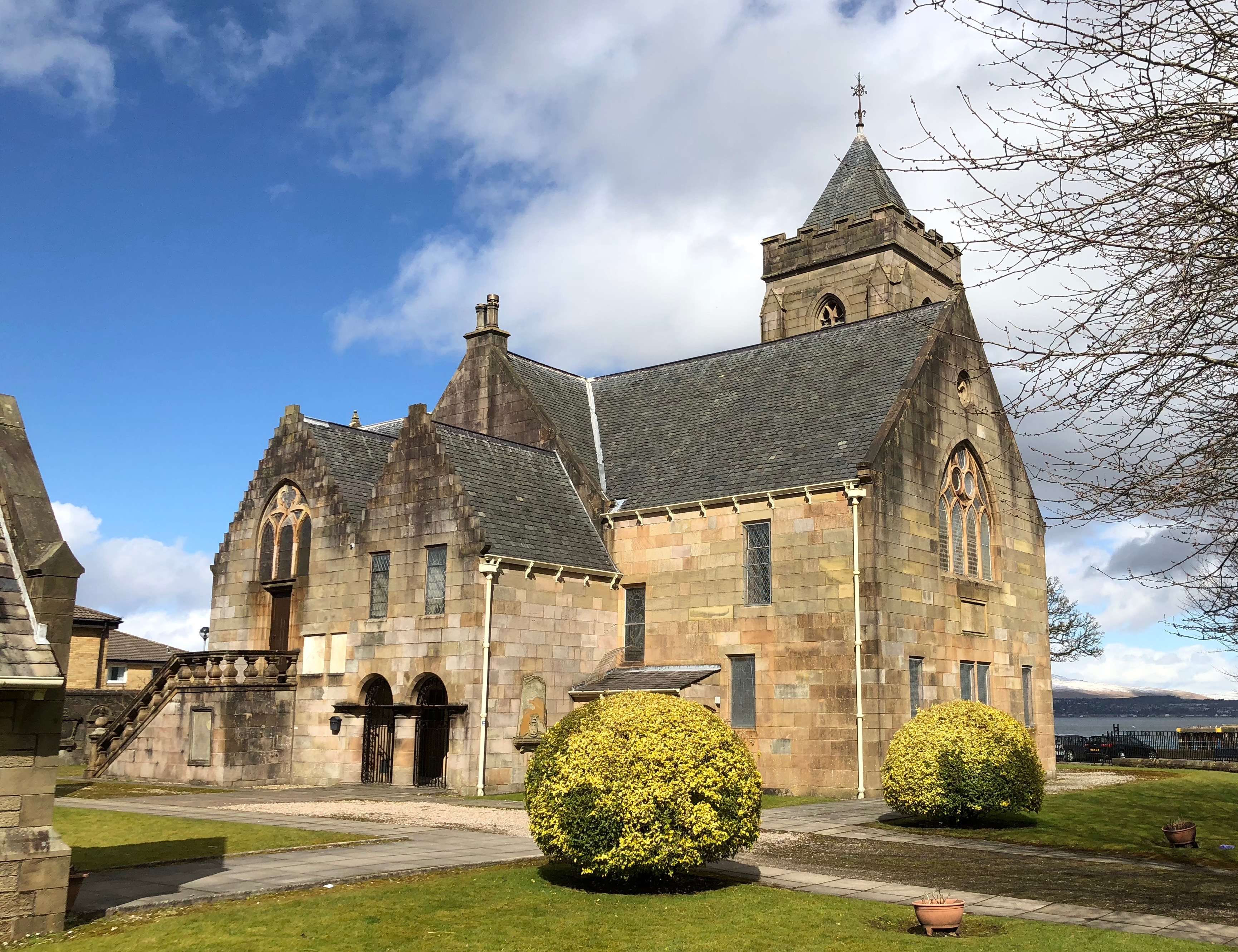 The Old West Kirk in Greenock, looking from the east to the original east gable, with steps giving access to the Schaw Aisle and the adjacent Vestry. On the right hand side, the main gable features the window at the Farmer's Loft.